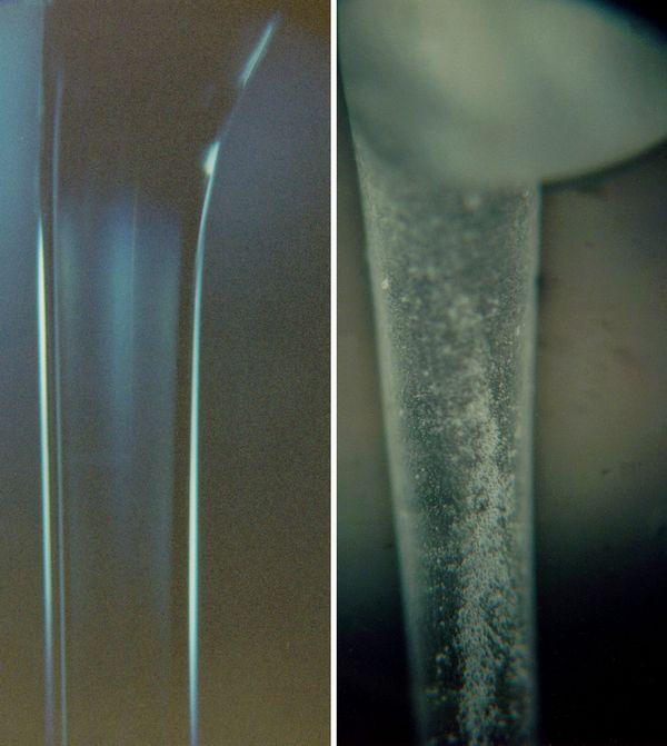 ZBLAN glass grown with the same setup in zero-gravity (left; aboard a KC-135 plane) and in normal gravity (right)